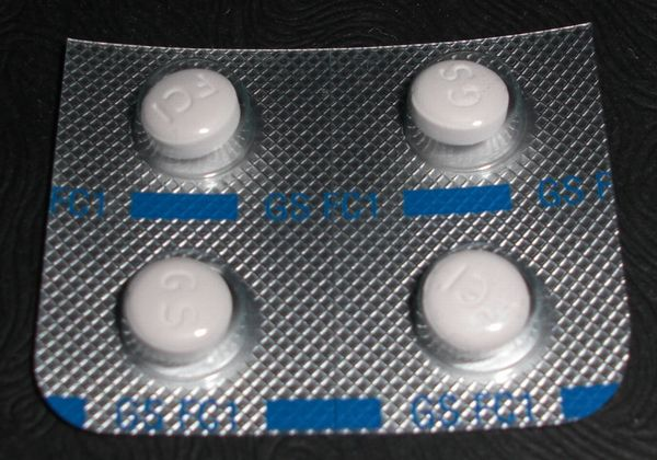 Paroxetine Paxil 10mg